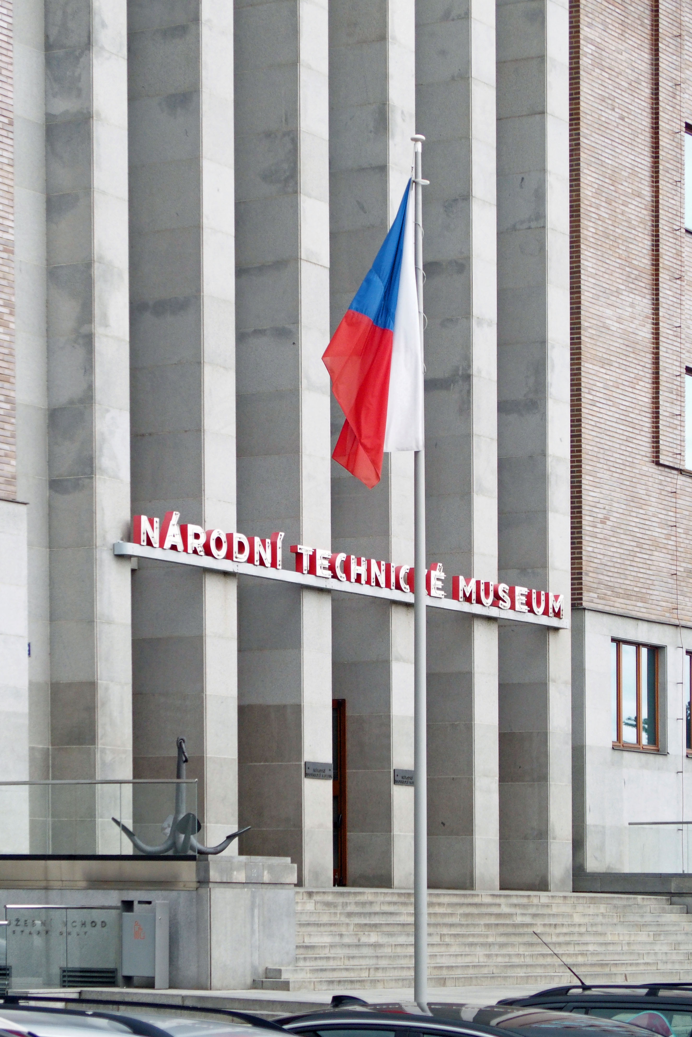 National Technical Museum entrance, Prague